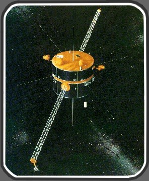 The WIND Satellite launched on November 1, 1994.